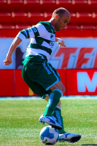 Mexican player Carlos Ochoa